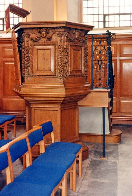 St Nicholas Cole Abbey, Queen Victoria Street, London EC4 - Pulpit